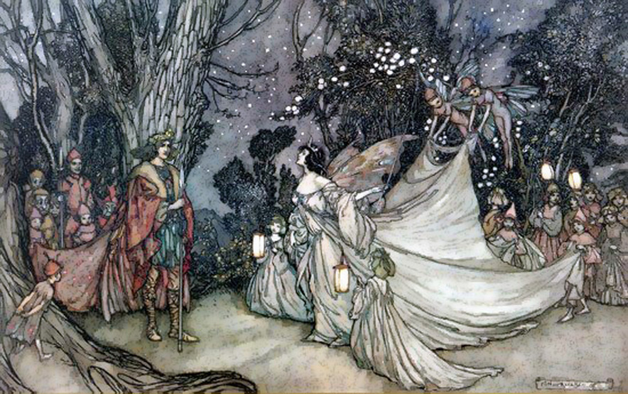 "The Meeting of Oberon and Titania", an illustration from by Arthur Rackham. The picture was created for a 1908 edition of A Midsummer Nights's Dream, but ultimately wasn't used in the final product (source).